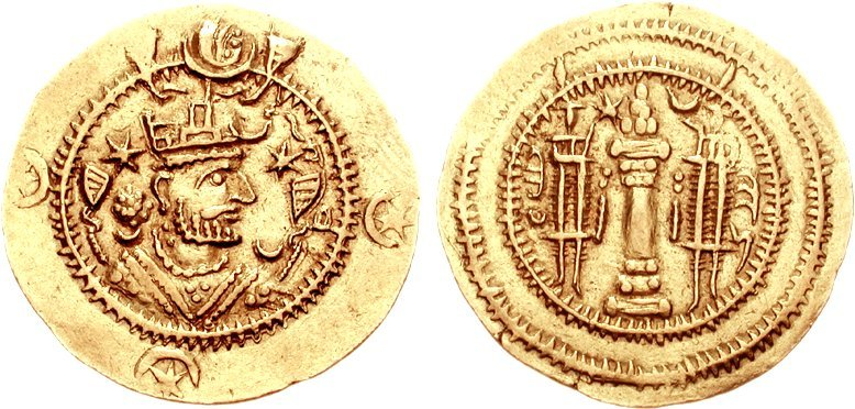 Golden coin of Kavad I